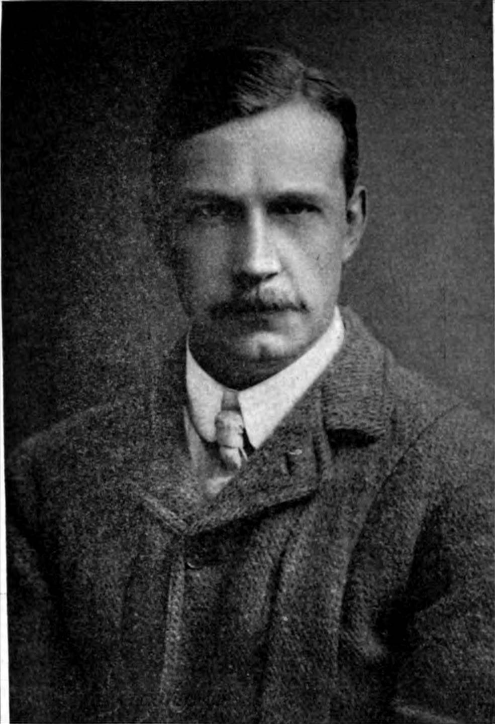 George Oliver Onions (b. 13 November 1873 – d. 9 April 1961) was a British writer of story collections and over 40 novels.